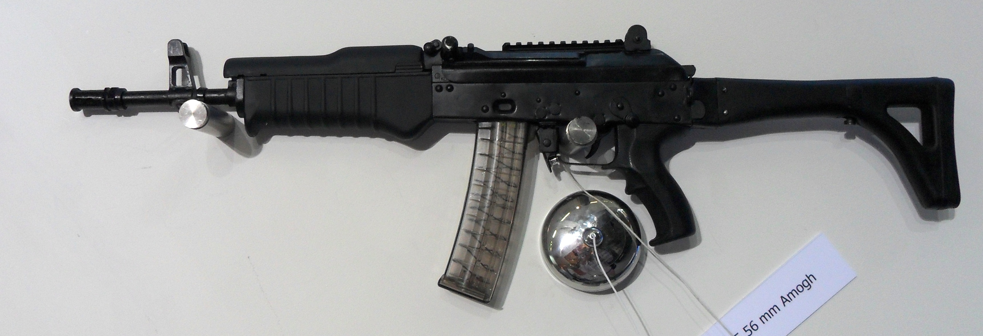 AMOGH - Carbine, open butt